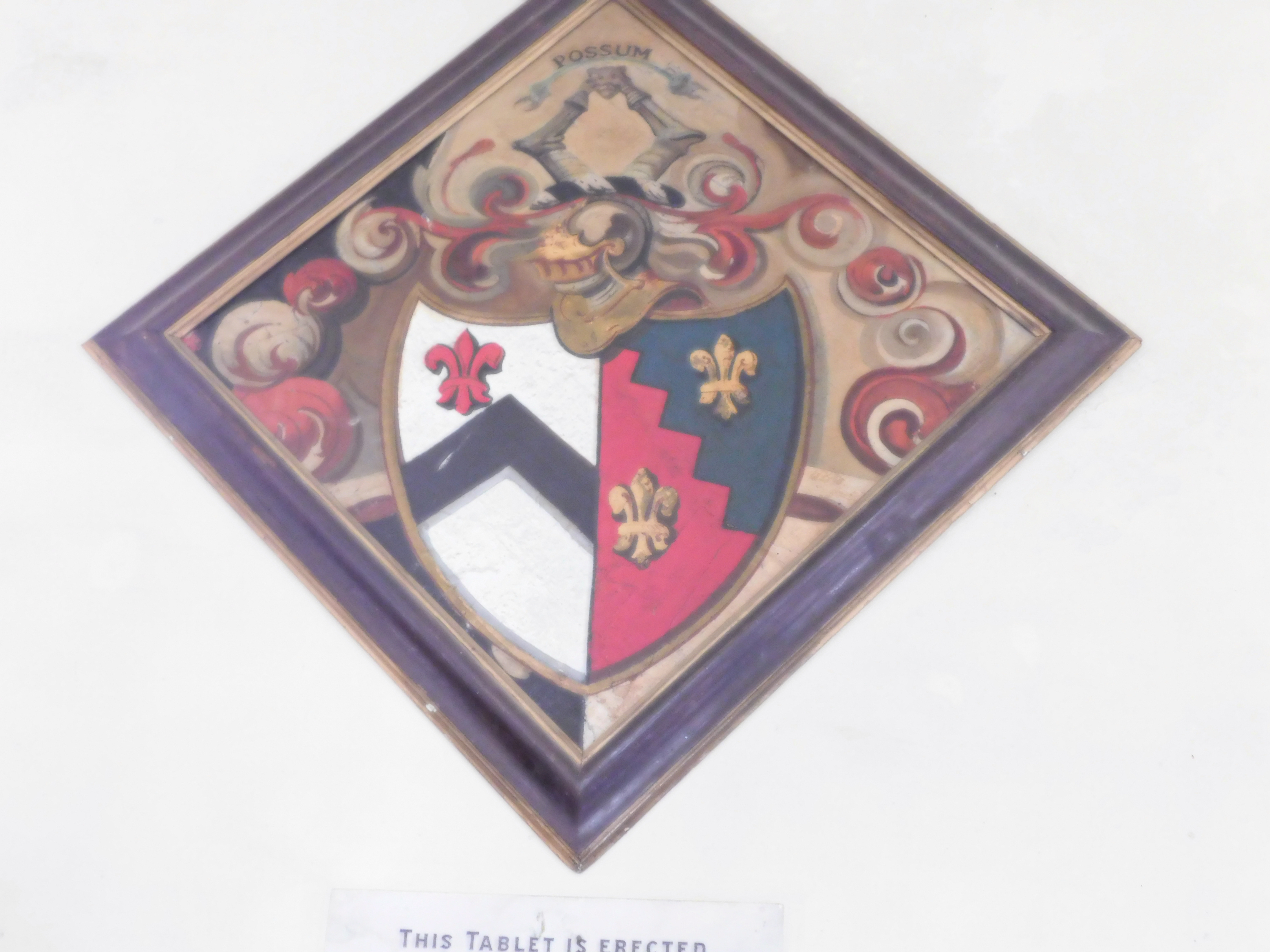 Funeral hatchment of Riccard in St Peter's church, Portesham, England